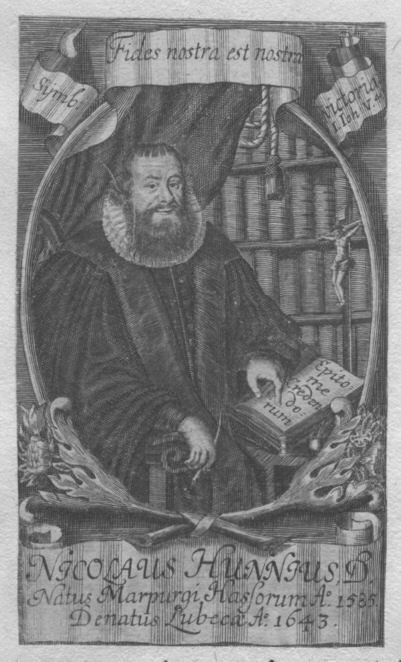 Portrait of Nikolaus Hunnius, Superintendent of the Lutheran church in Lübeck